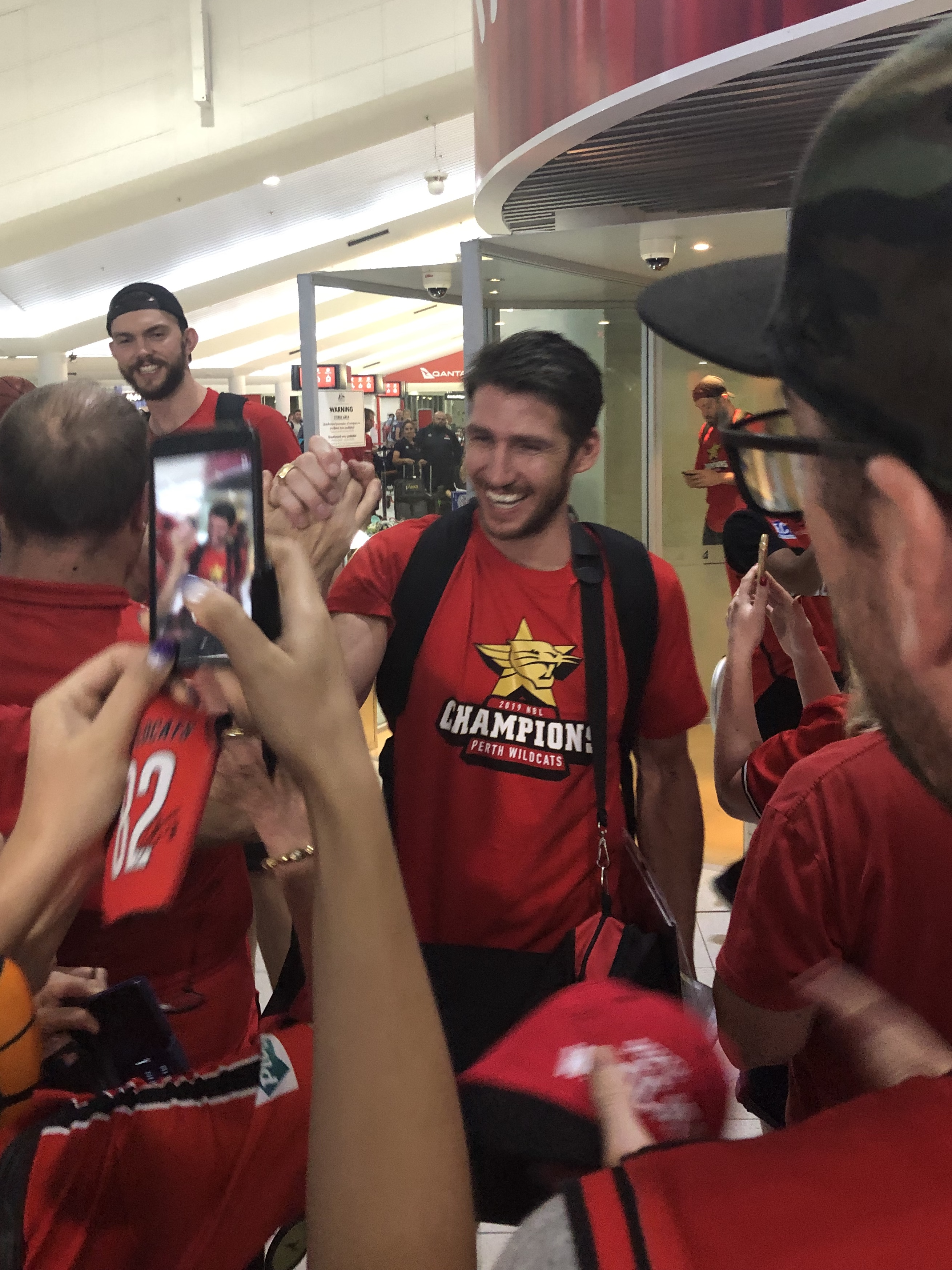 Damian Martin and Angus Brandt following the Perth Wildcats championship win